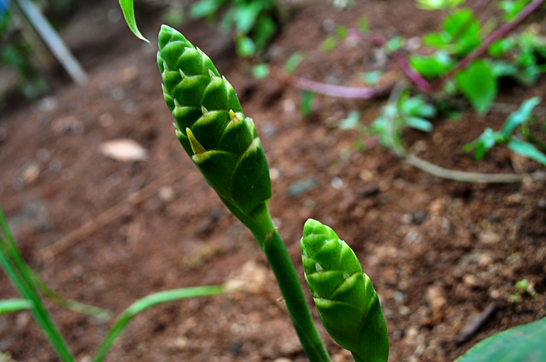 Ginger Plant and Flower